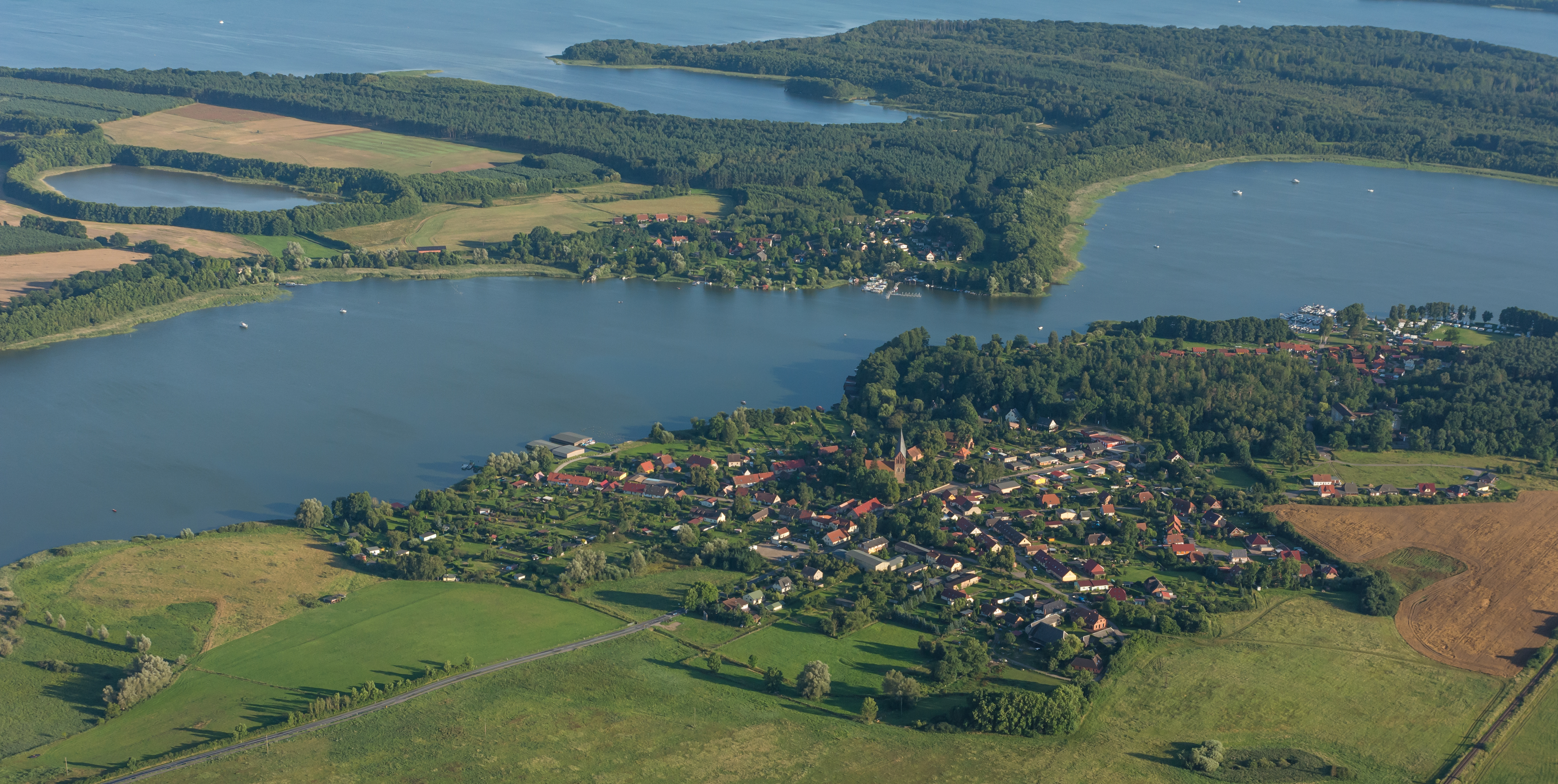 Jabelscher See, Jabel und Umgebung The making of this document was supported by the Community-Budget of Wikimedia Germany.